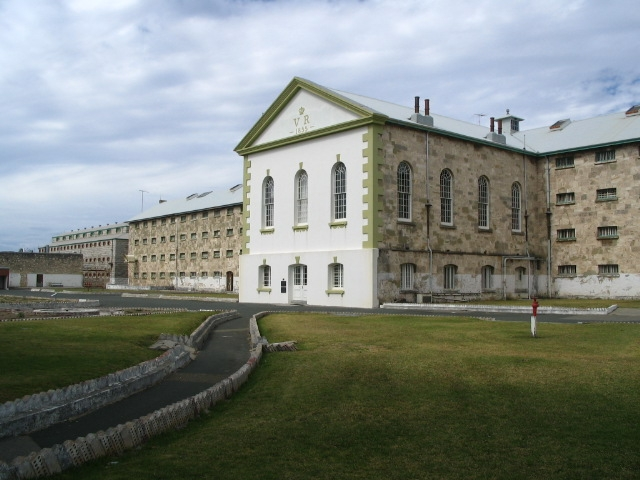 A view to the Angican Church at Fremantle Prison